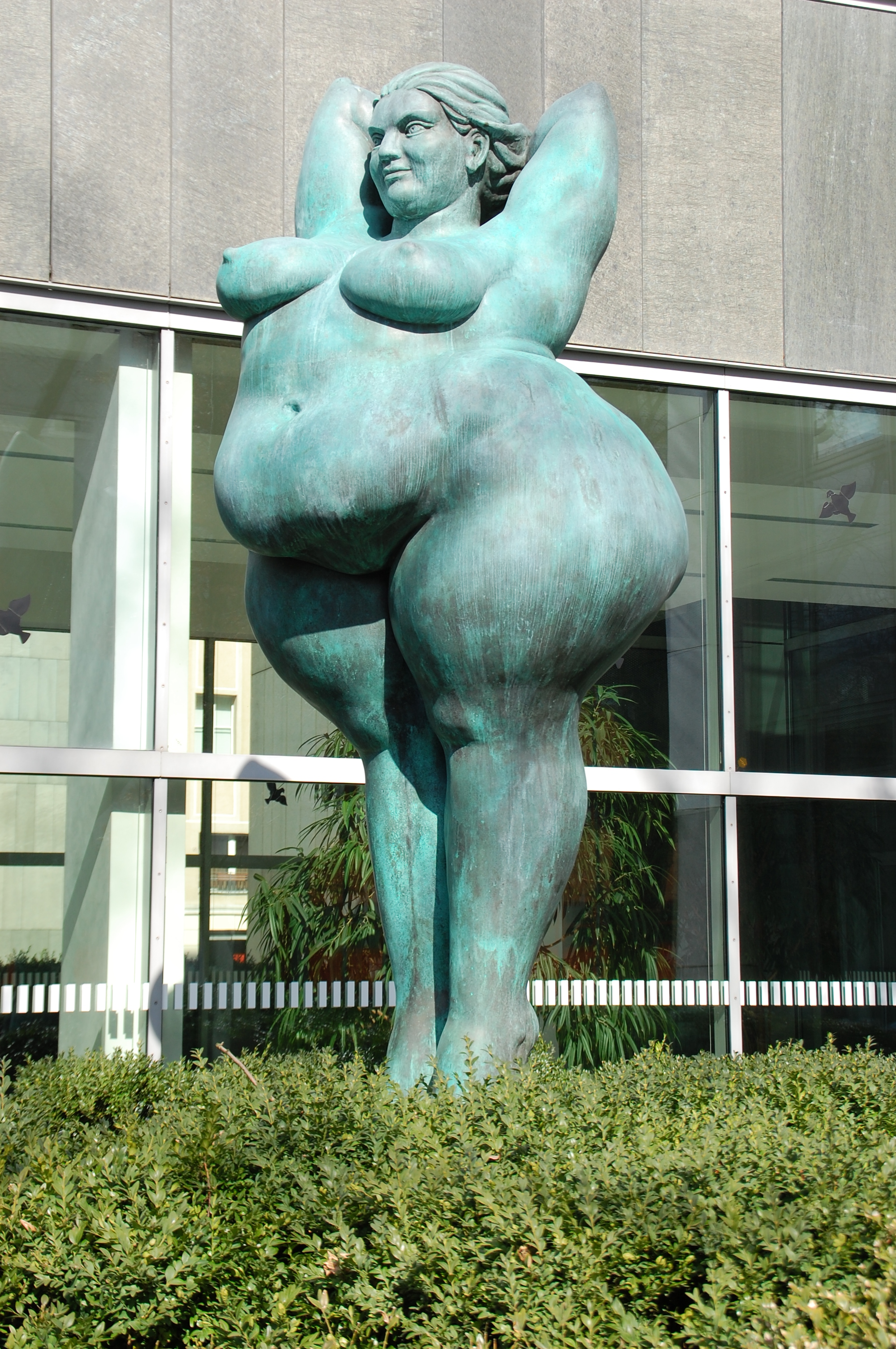 Statue "Yolanda" at the Investitionsbank Berlin, Germany